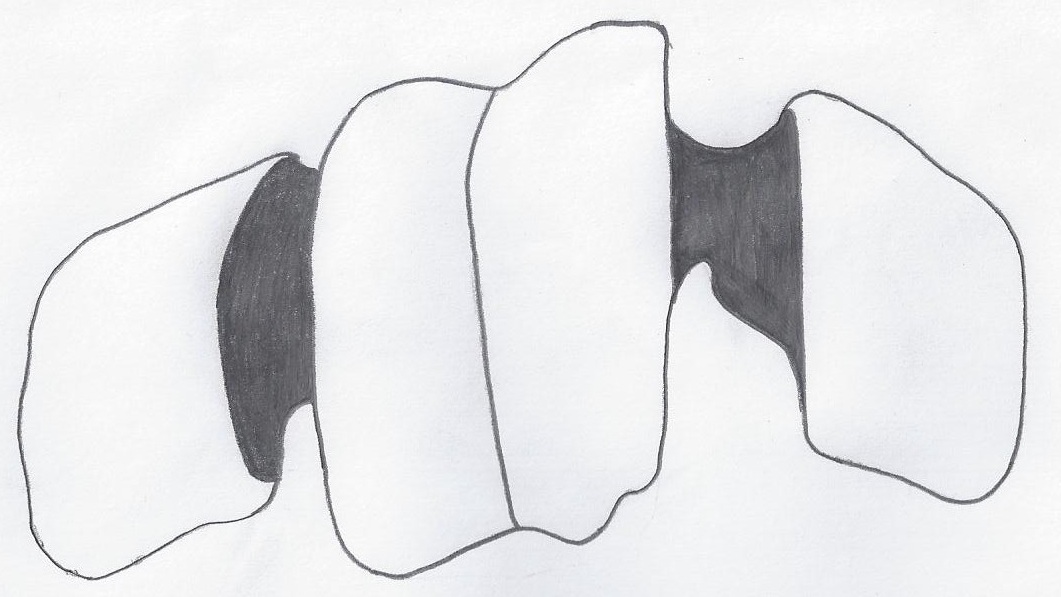 top view of the right tarsometatarsus of MLP-112 (a specimen of Brontornis), based on "Systematic Revision of the Phorusrhacidae (Aves: Ralliformes)" FIG 10. During the restoration the external trochlea of the left tarsometatarsus was accidentaly used as the internal trochlea of the right tarsometatarsus (this is on the right in the image), leading to the naming of Rostrornis.